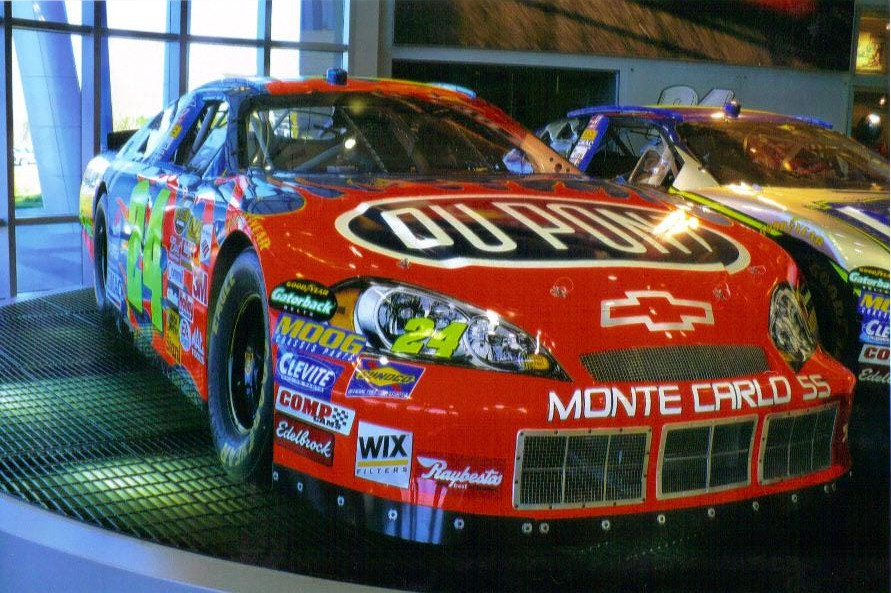 Jeff Gordon's car on display at Hendrick Motorsports.